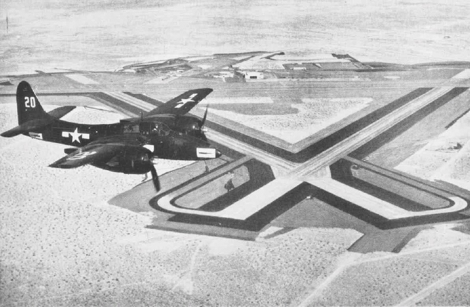 Aerial view of the U.S. Naval Ordinance Test Station—NOTS (present day Naval Air Station China Lake) in the mid-1940s, California (USA). A Grumman F7F Tigercat flies over the air station. Adjacent to Ridgecrest, in Kern and Inyo Counties, northern Mojave Desert. .